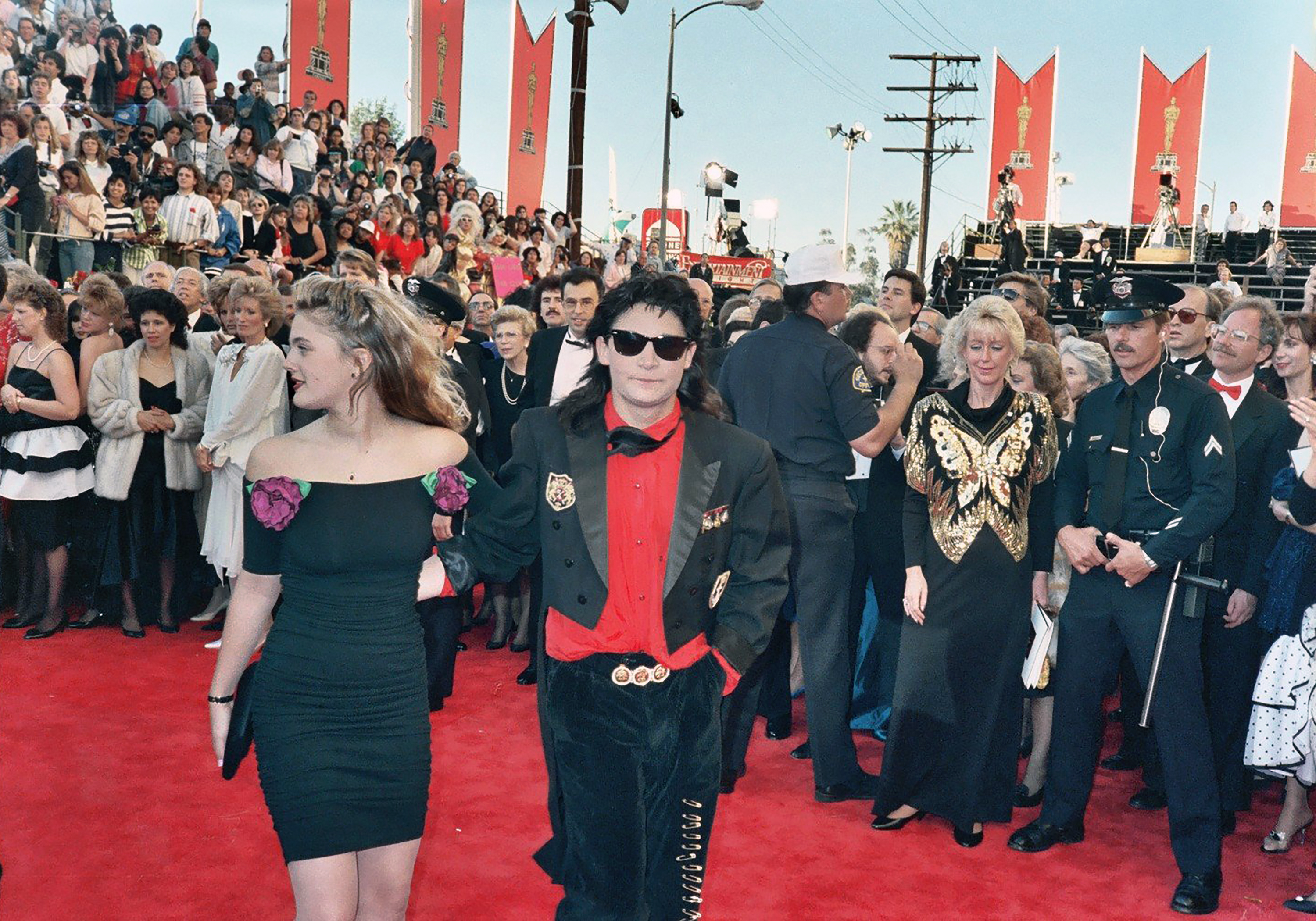 Drew Barrymore and Corey Feldman at the 61st Academy Awards 3/29/89drewbarrymore_coreyfeldman